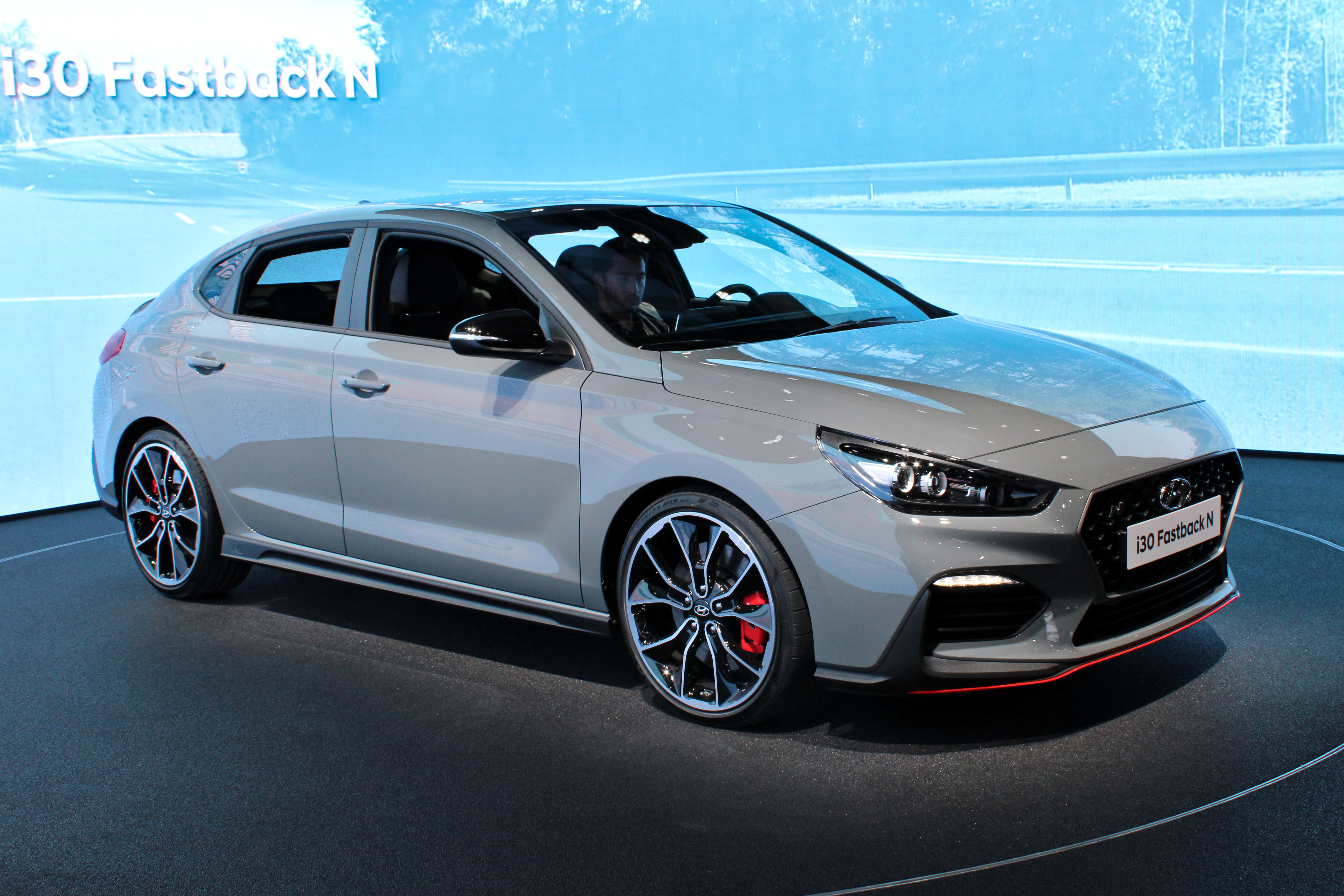 Hyundai i30 Fastback N at Paris Motor Show